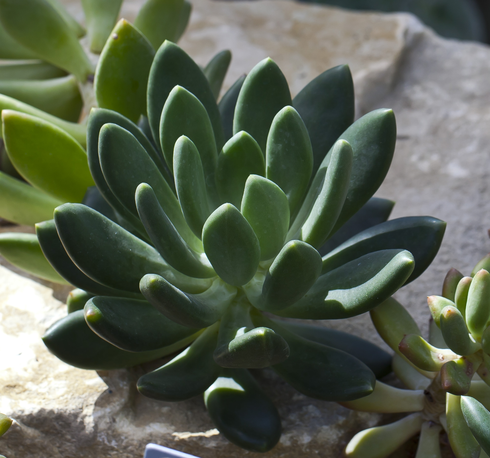 Pachyphytum fittkaui, Tallinn Botanic Garden, Estonia